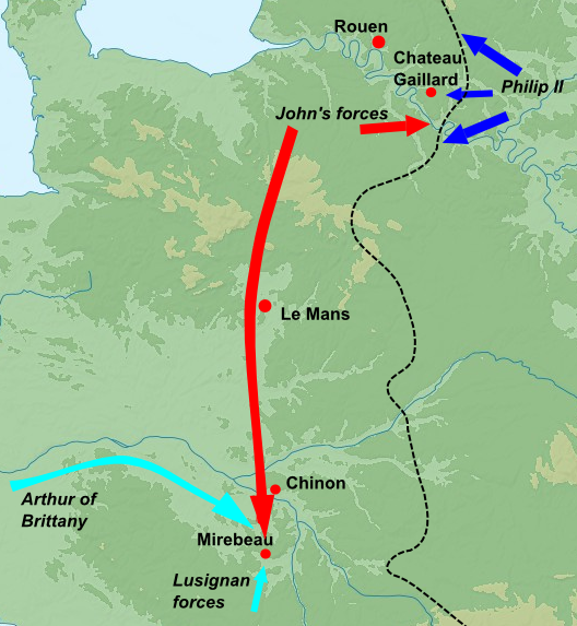 French campaign of 1202 overlaid on a blank topographic map of France in the official Lambert-93 projection. Information from Warren, "King John", p.78.Note: The background map is a raster image embedded in the SVG file.